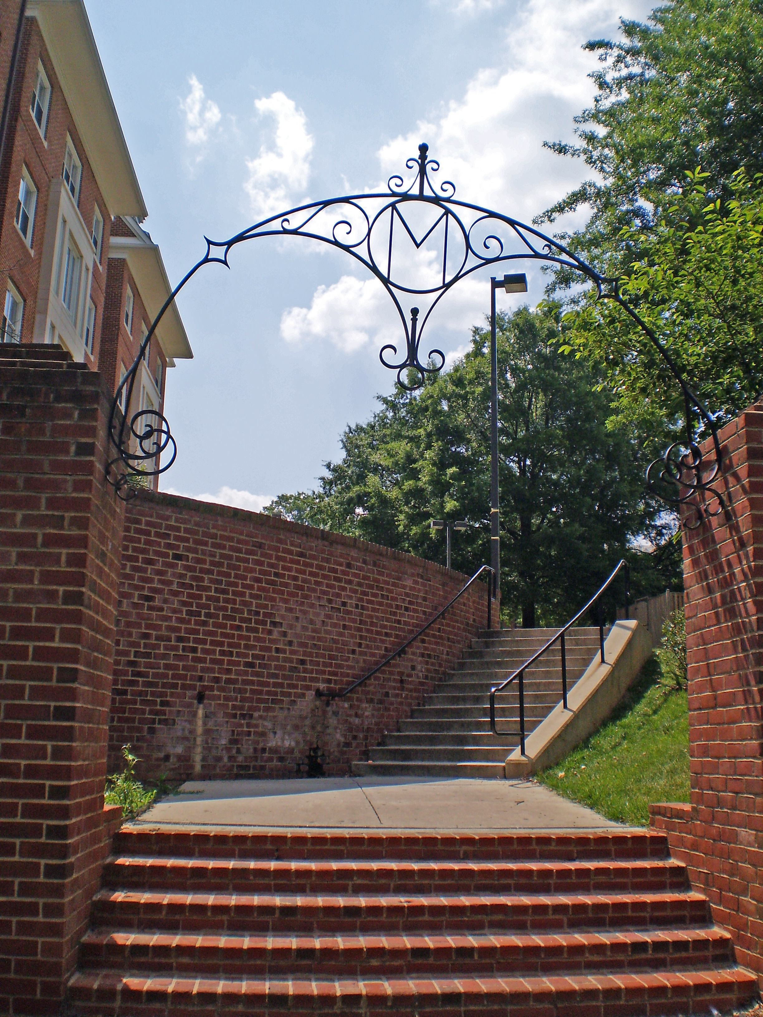 An arched gateway on the campus of University of Maryland, College Park.